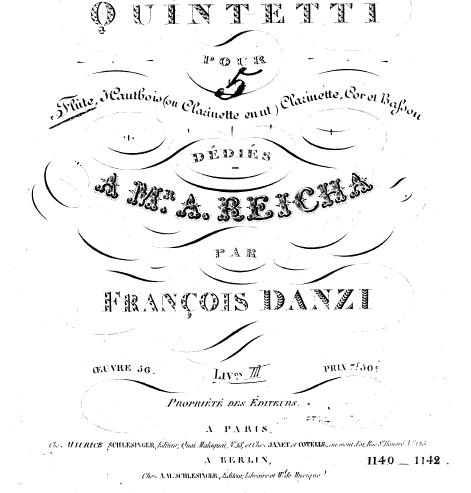 front page of danzi's first quintet series